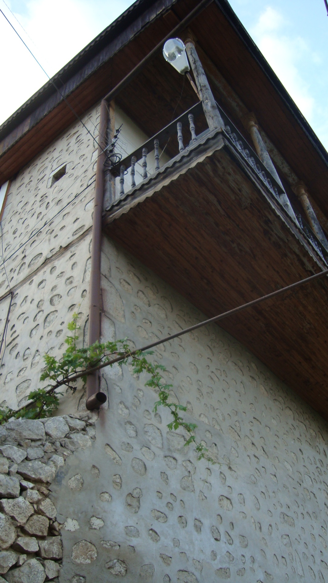 District museum. Shushi, Republic of Mountainous Karabakh (Artsakh).